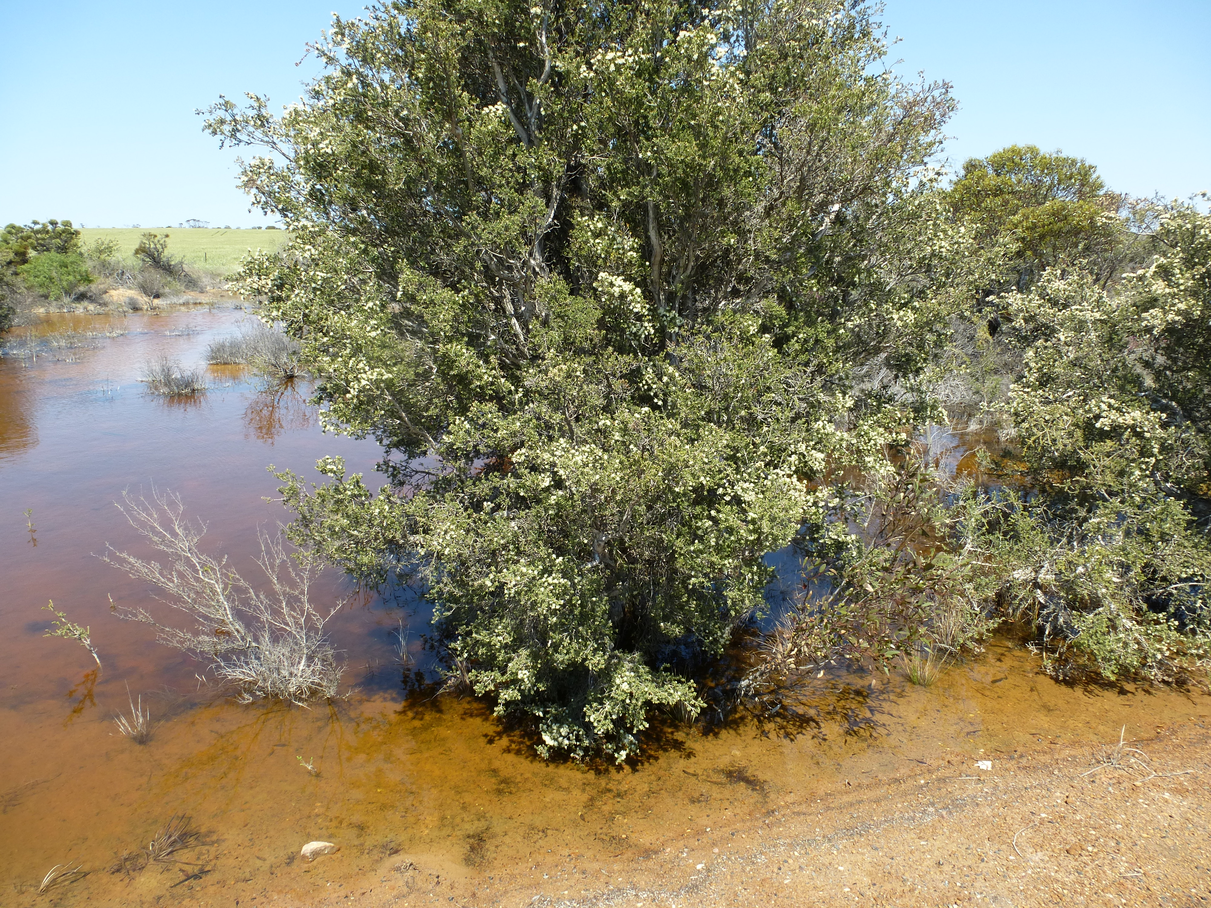 Melaleuca cuticularis 50 km E of Ravensthorpe